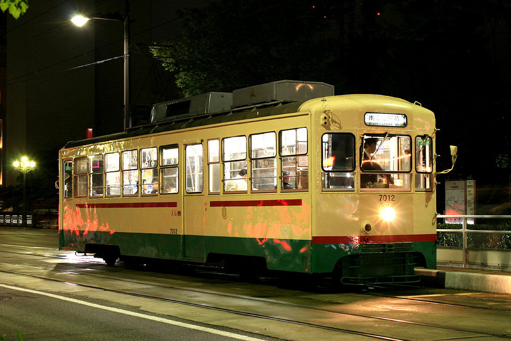 A 7000 series tram on Toyama Chiho Railway, Toyama, Japan.